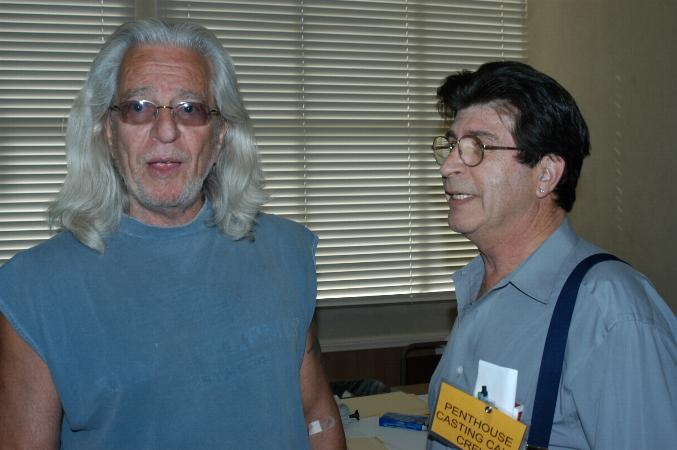 Fred Lincoln, Ron Sullivan at Penthouse Talent Call on Dec 14, 2004